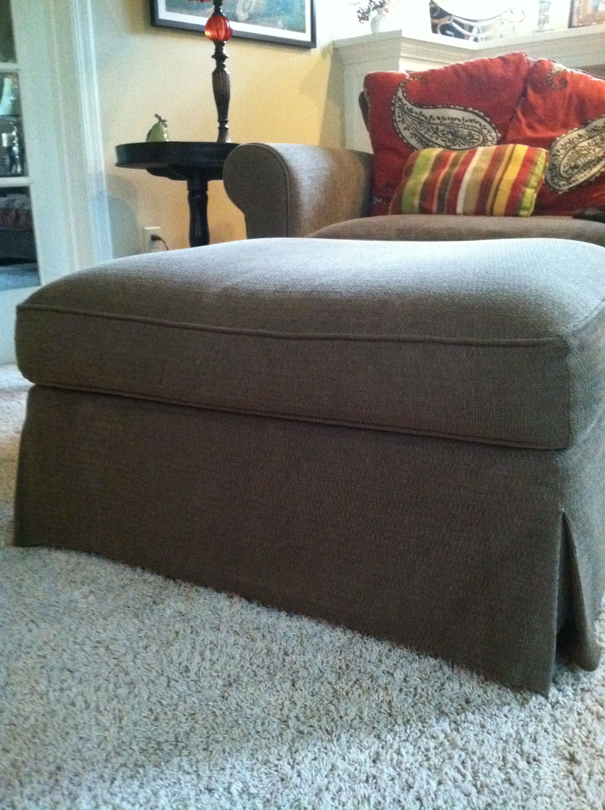 An ottoman adjacent to an armchair in a living room.